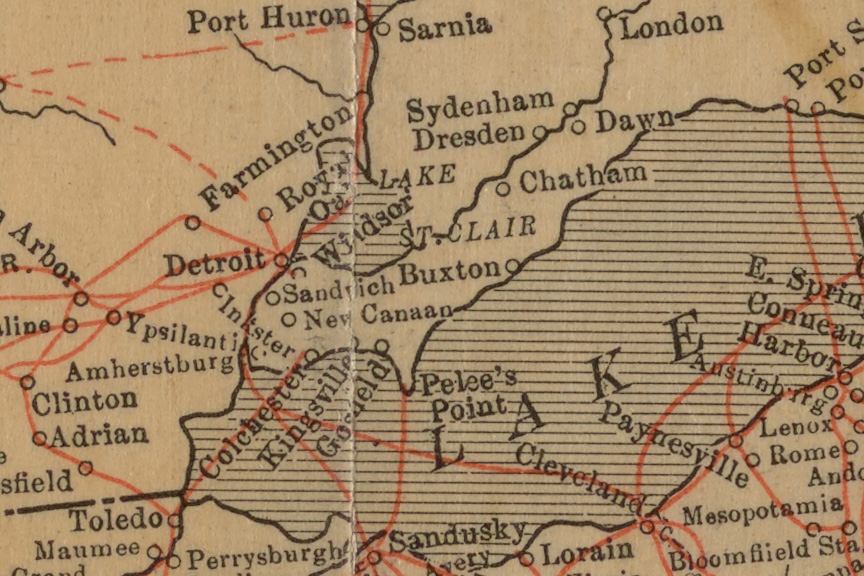 Scale ca. 1:12,500,000. Inset: Map showing the lines of the Underground Railroad in Chester and the neighboring Counties of Pennsylvania. Extracted from his The Underground Railroad from slavery to freedom, New York? 1898. Mapping the Nation (NEH grant, 2015-2018)